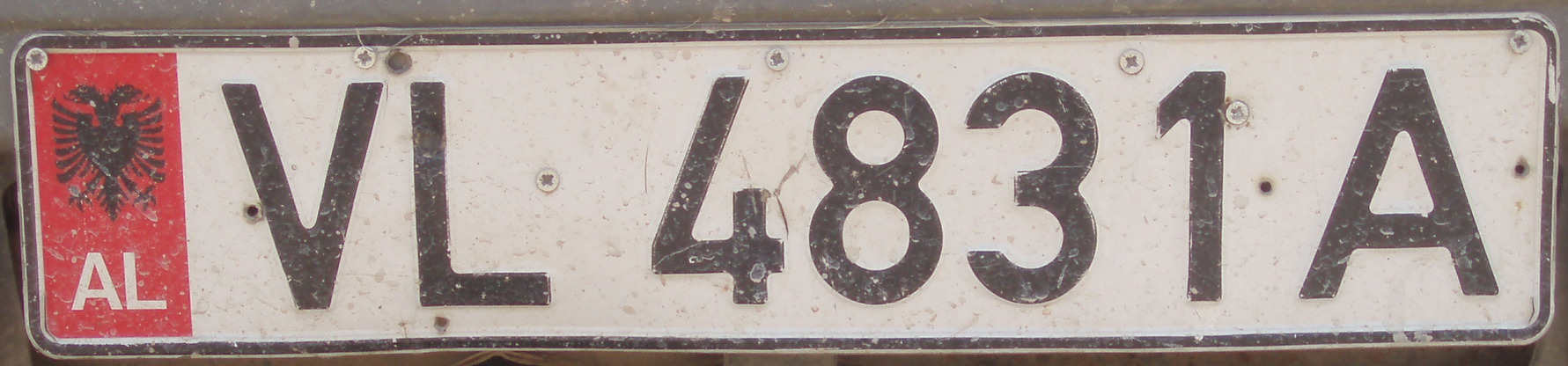 license plate of Vlora, Albania